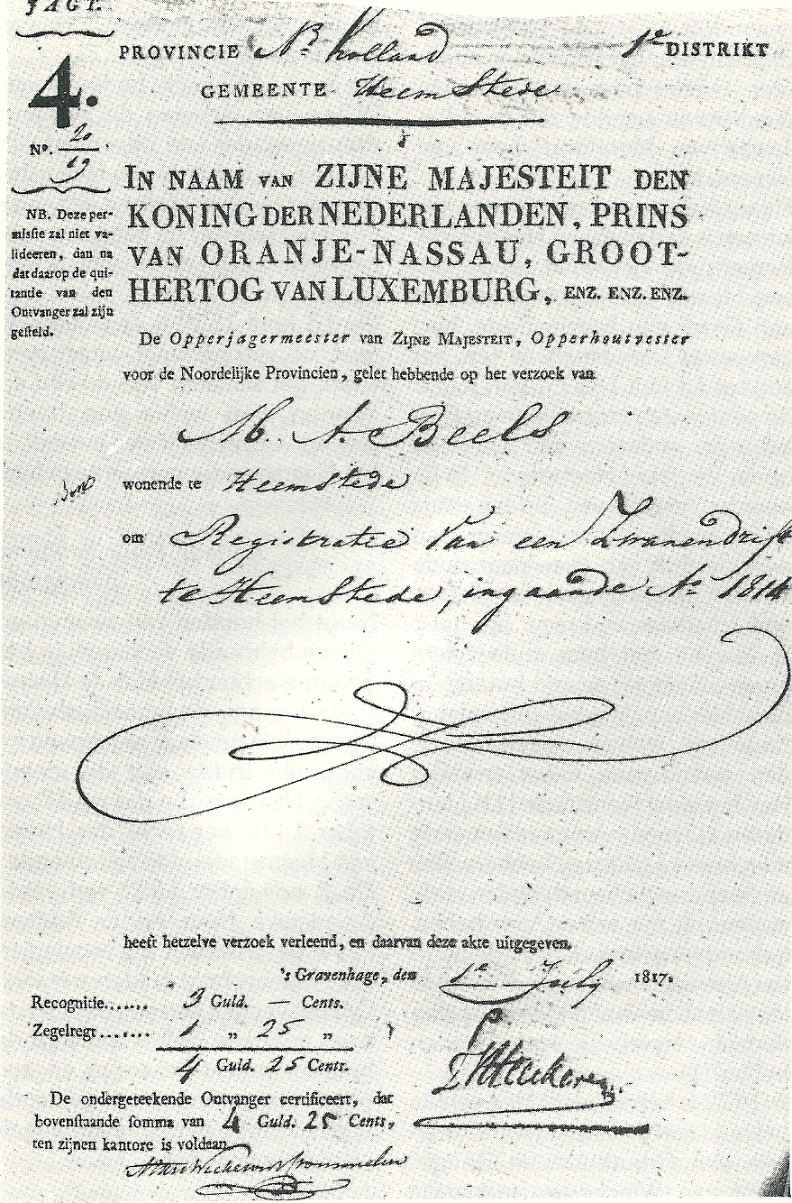 Registration of right to own swans